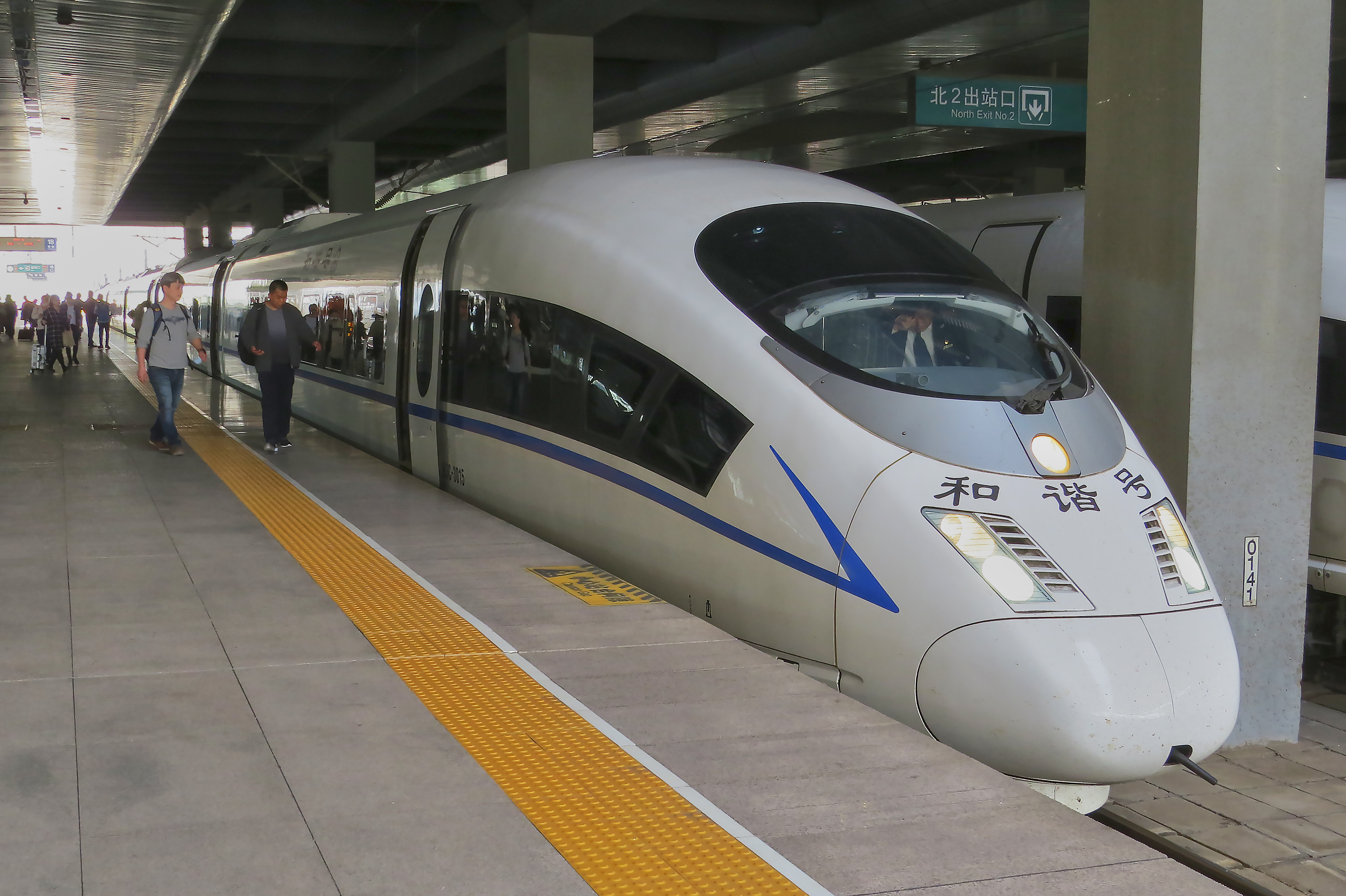 C2222 to Beijing South with an intermediate stopover at Wuqing, taken on Platform 18. Some HDR corrections were made.